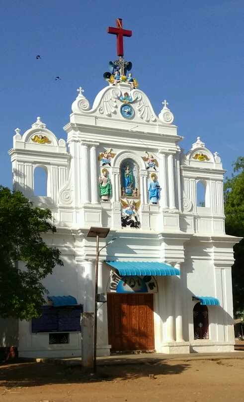 Church